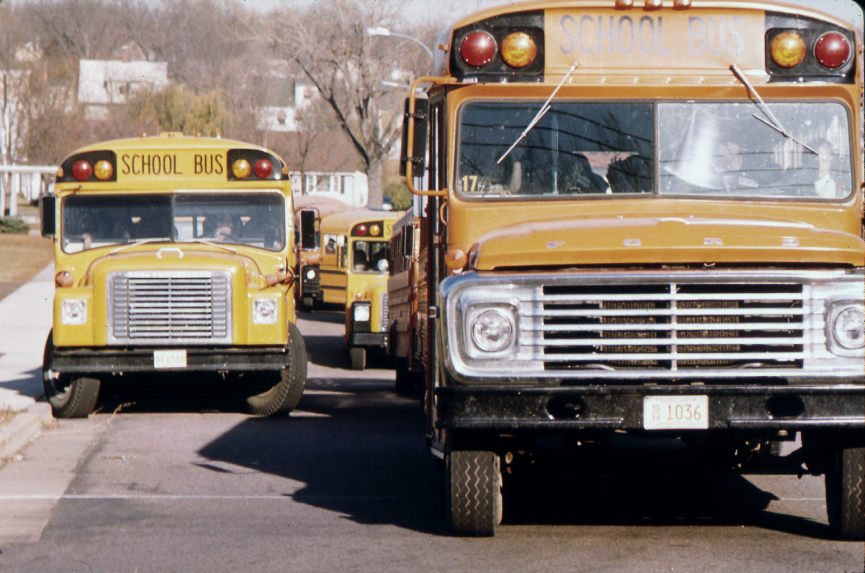 School buses photographed at a high school in New Ulm, Minnesota in 1974.